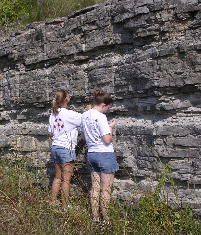 Outcrop of Upper Ordovician limestone and minor shale, central Tennessee; College of Wooster students. Photograph taken by Mark A. Wilson (Department of Geology, The College of Wooster). [1]